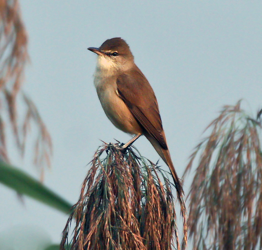 Clamorous Reed Warbler (Acrocephalus stentoreus) in Kolkata, West Bengal, India.